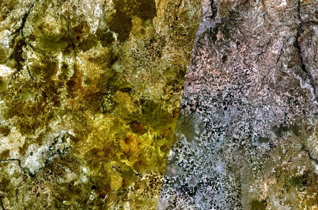 group of maars, lava domes, basaltic lava flows, and pyroclastic cones occupies the Acigöl-Nevsehir caldera in central Turkey